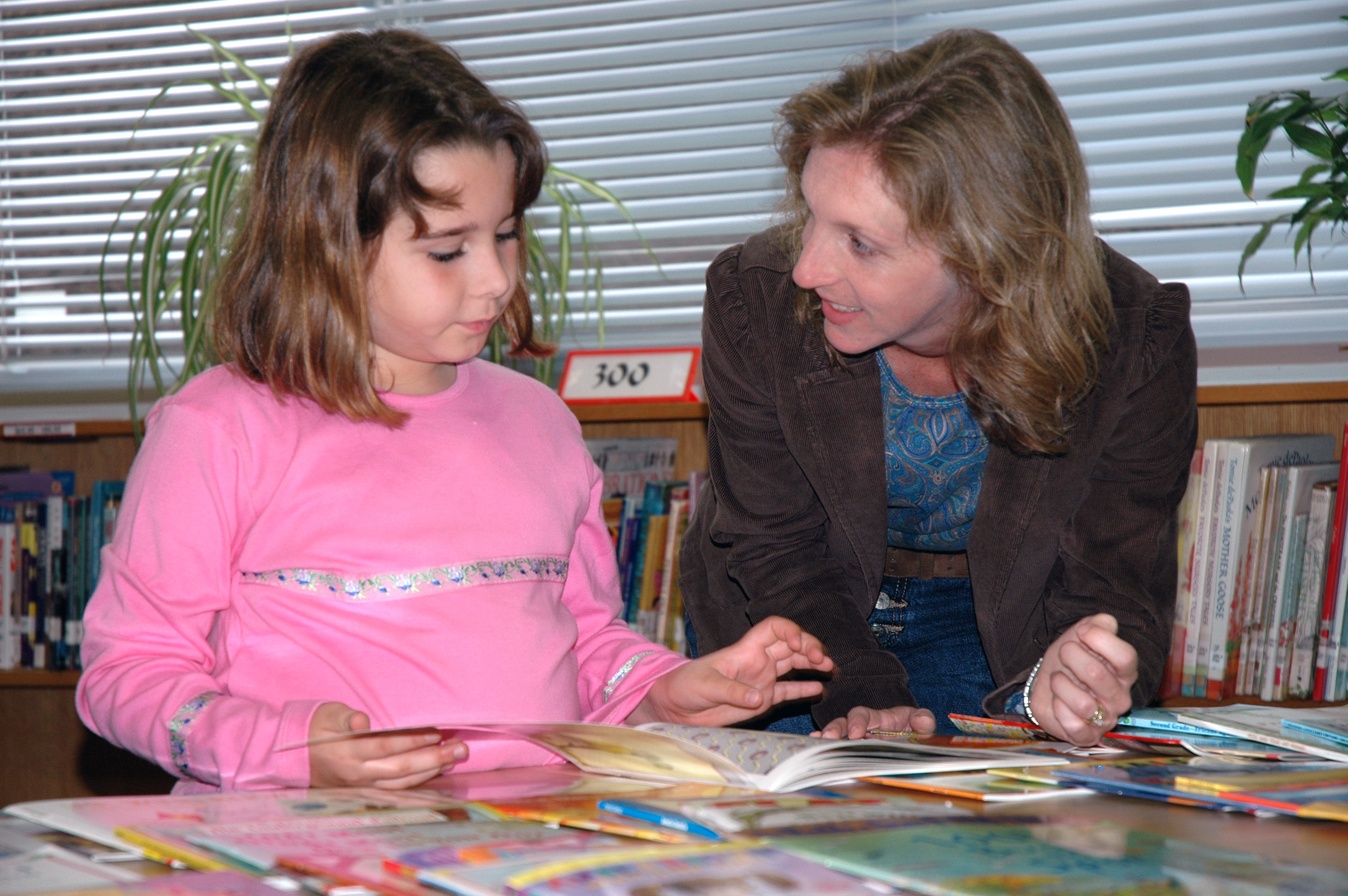 Sasebo, Japan (Oct. 26, 2006) - Jennifer Tonder (right), a teacher's aide for a 3rd-4th grade multi-age class, discusses the various books available from the Reading Is Fundamental (RIF) grant given to Sasebo Elementary School with a student. The RIF donated 1,000 books to the school's library. Sasebo Elementary was the first overseas school to receive the RIF grant. U.S. Navy Photo by Mass Communication Specialist 3rd Class Jeff Johnstone (RELEASED)